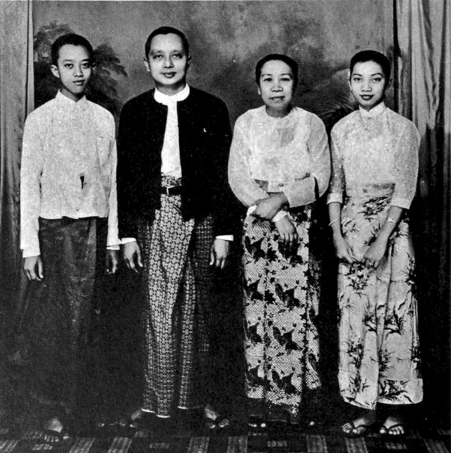 U Thant and his family, July 1957, before leaving for New York. L-R: Tin Maung, U Thant, Daw Aye Tin, Aye Aye.